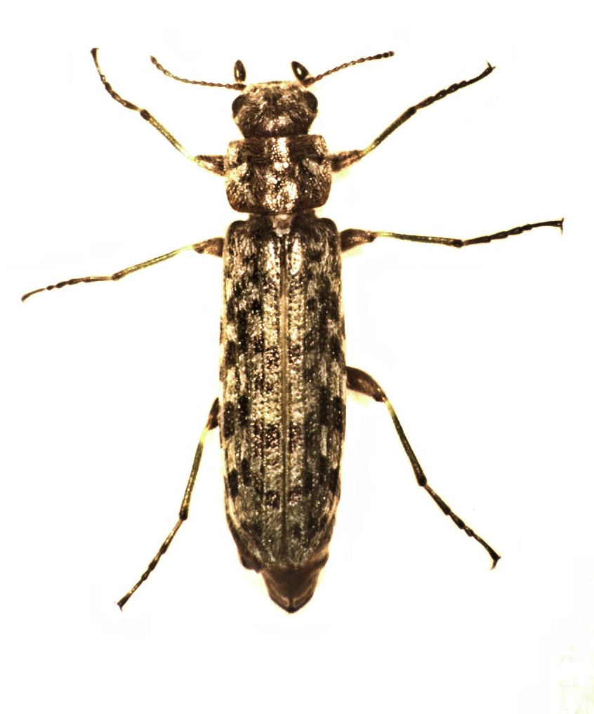 adult Philpottia levinotis